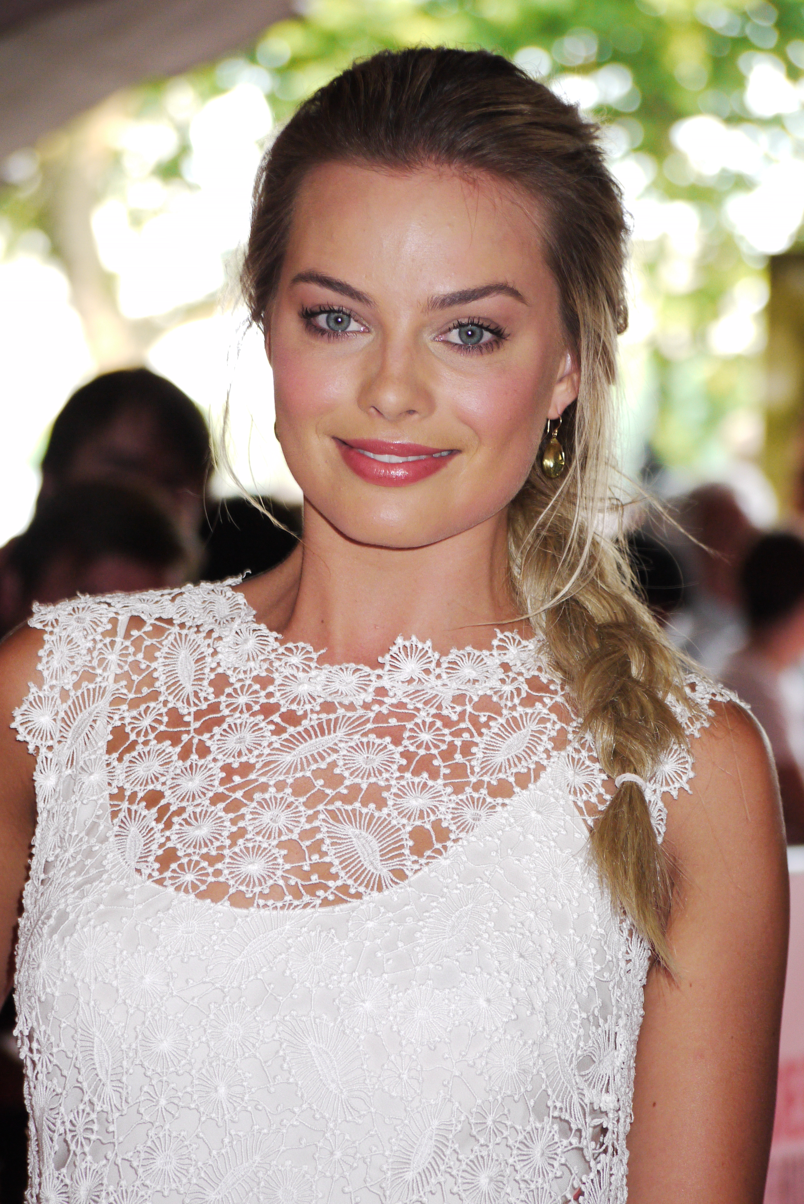 Margot Robbie at Somerset House in 2013